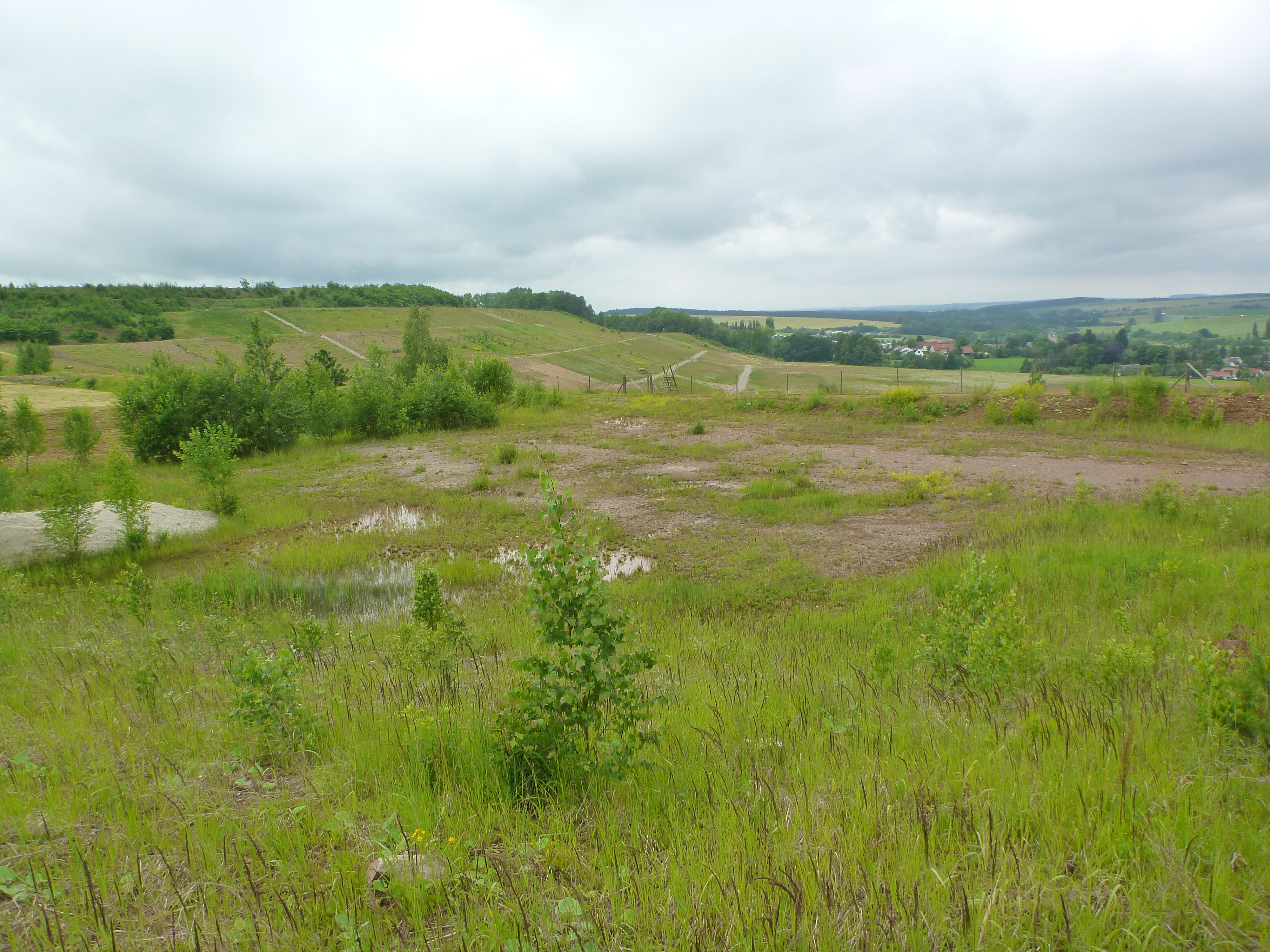 Parts of the tailing of Wismut GmbH Culmitzsch, in the background the village Wolfersdorf